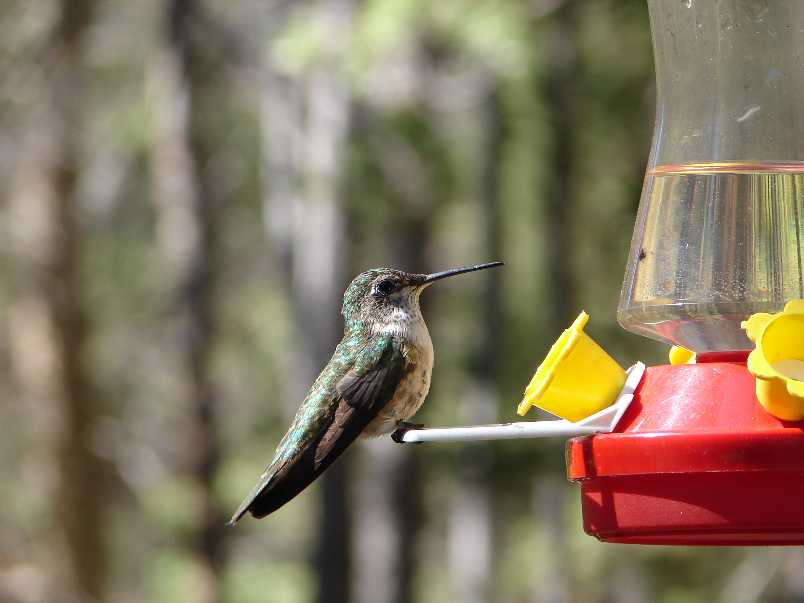 A female Ruby-throated Hummingbird feeding.